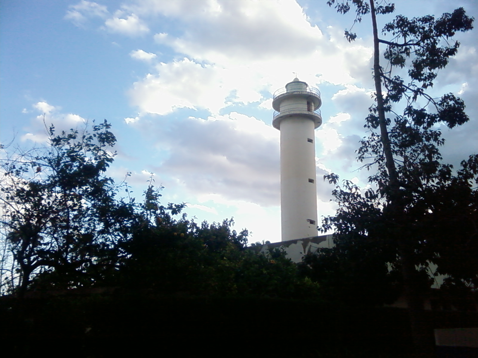 Marbella lighthouse, Málaga, Spain